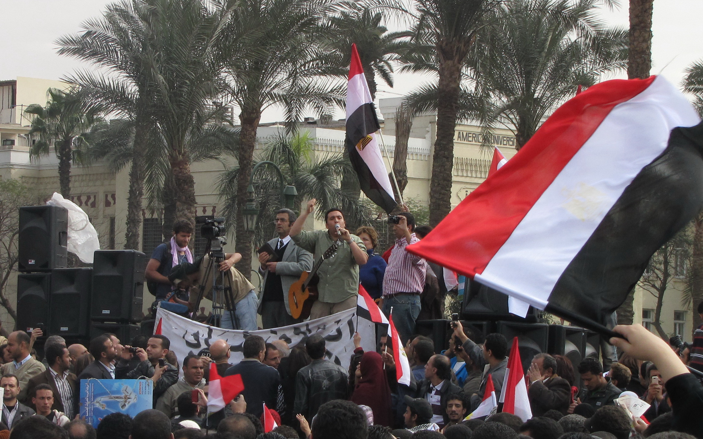 Etha'et al-thawra, lit: "Broadcast of the revolution", as it is called by the demonstrators during the 2011 Egyptian protests, set upon an elevated stage. People take the stage to address crowds, chant slogans, announce the adhan or call to prayer for Muslims, or for Copts to lead prayers, and to read poems or play songs to the demonstrators.